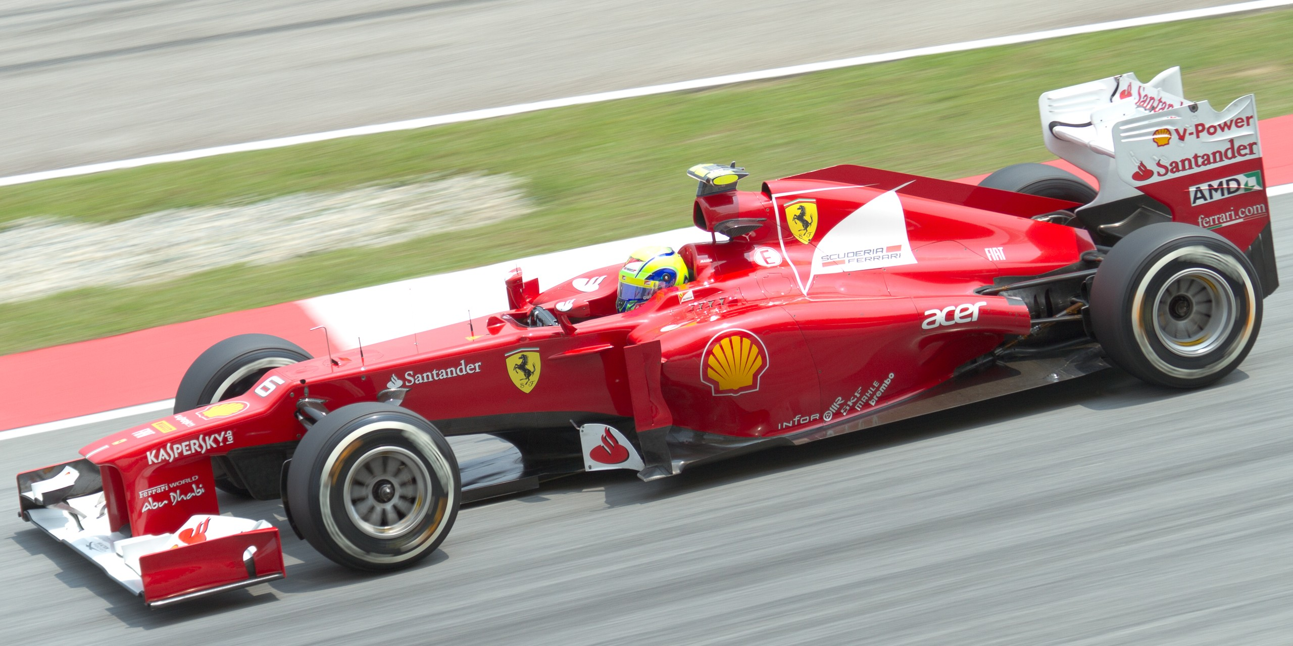 Formula One 2012 Rd.2 Malaysian GP: Felipe Massa (Ferrari) during the second practice session on Friday.